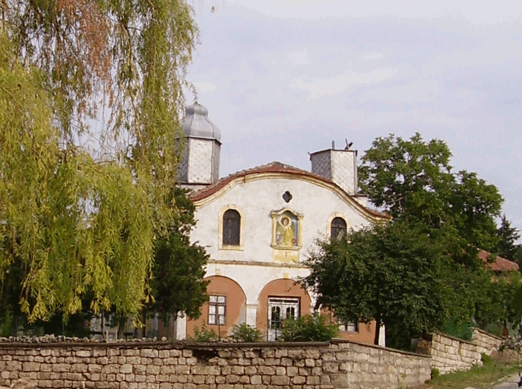 Church Saint Michael (1851), Milkovitsa, Bulgaria